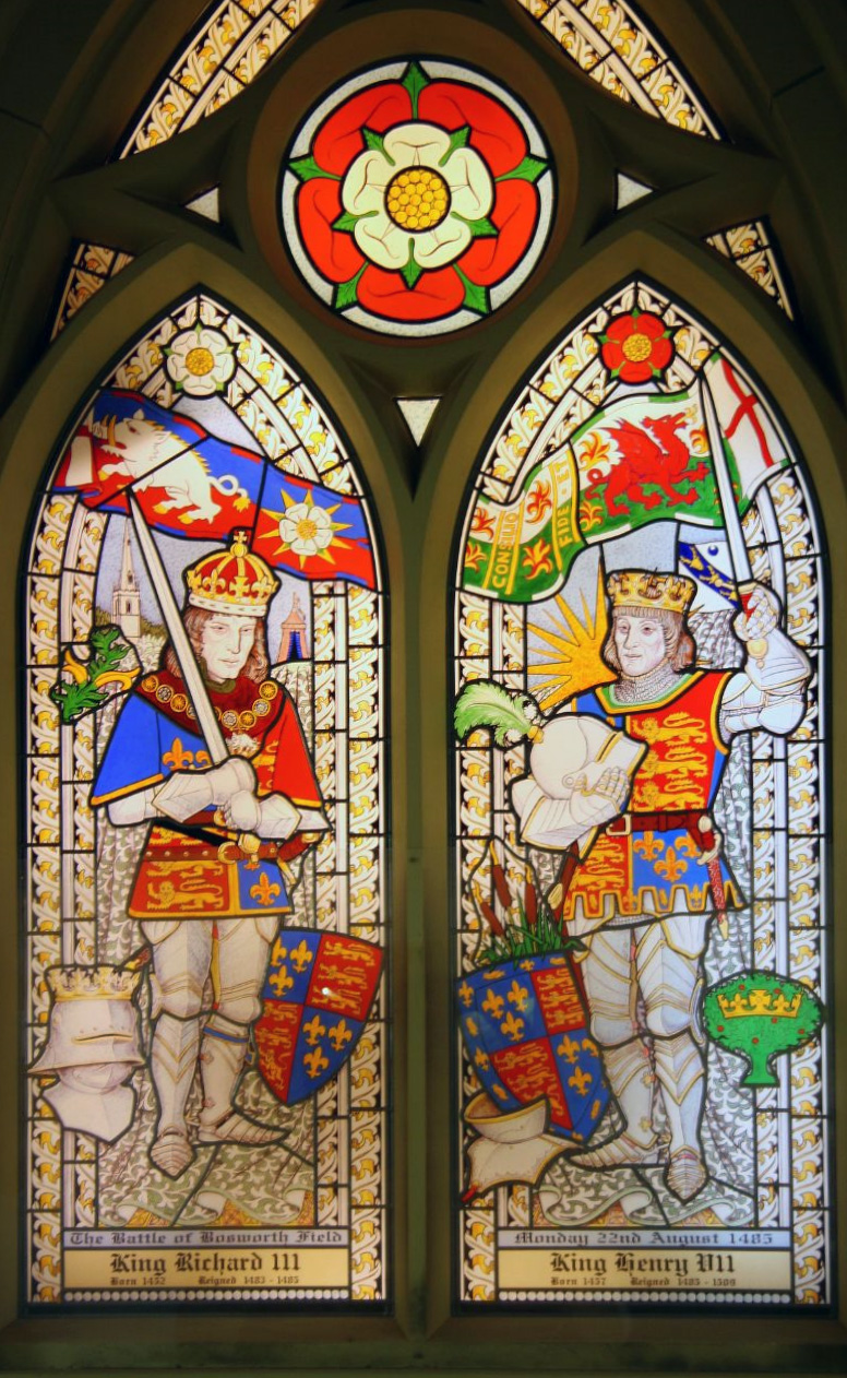 Stained glass window installed in St James Church, Sutton Cheney: The church was held by tradition to be where Richard III (left) had his last Mass before facing Henry VII (right) on the fields of Bosworth in 1485.[1]